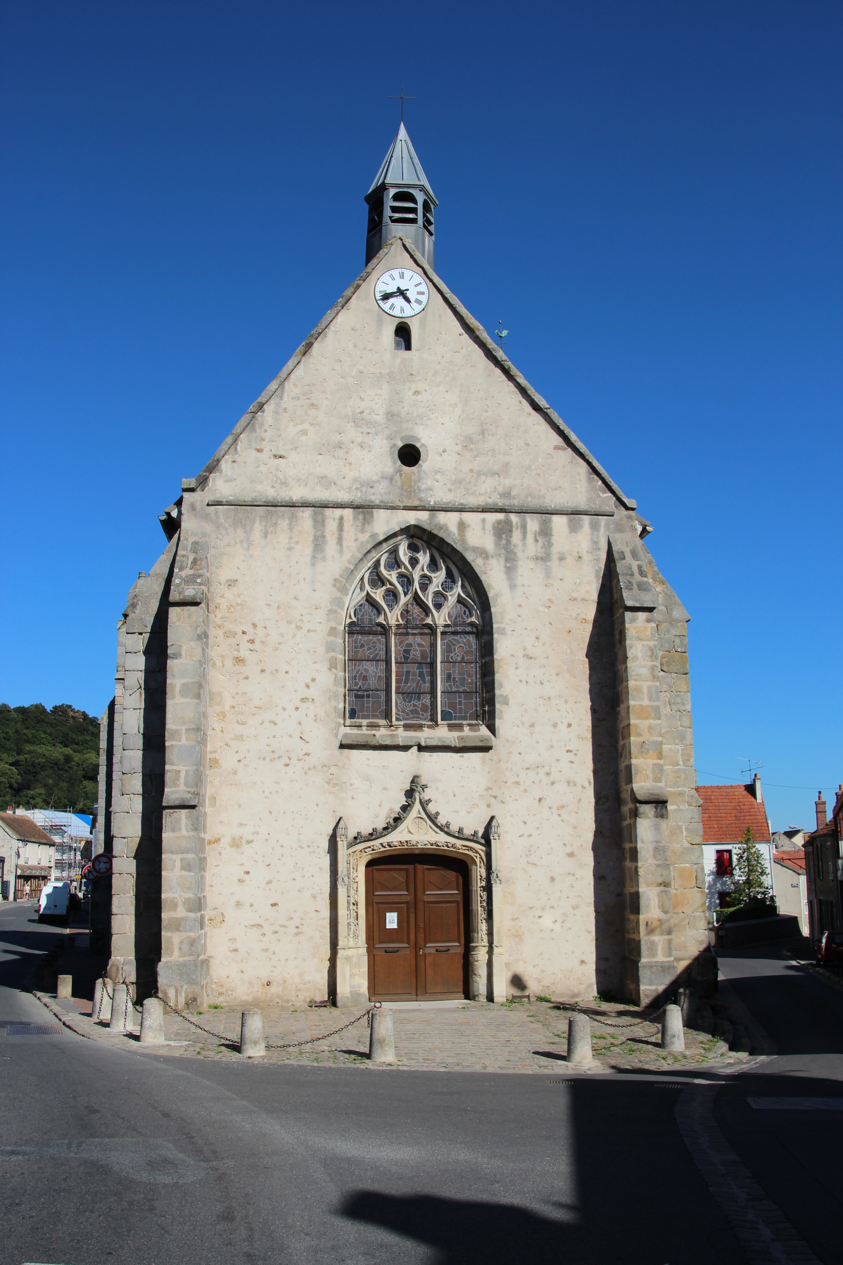 Sainte-Marie-Madeleine church of Marcoussis, France.